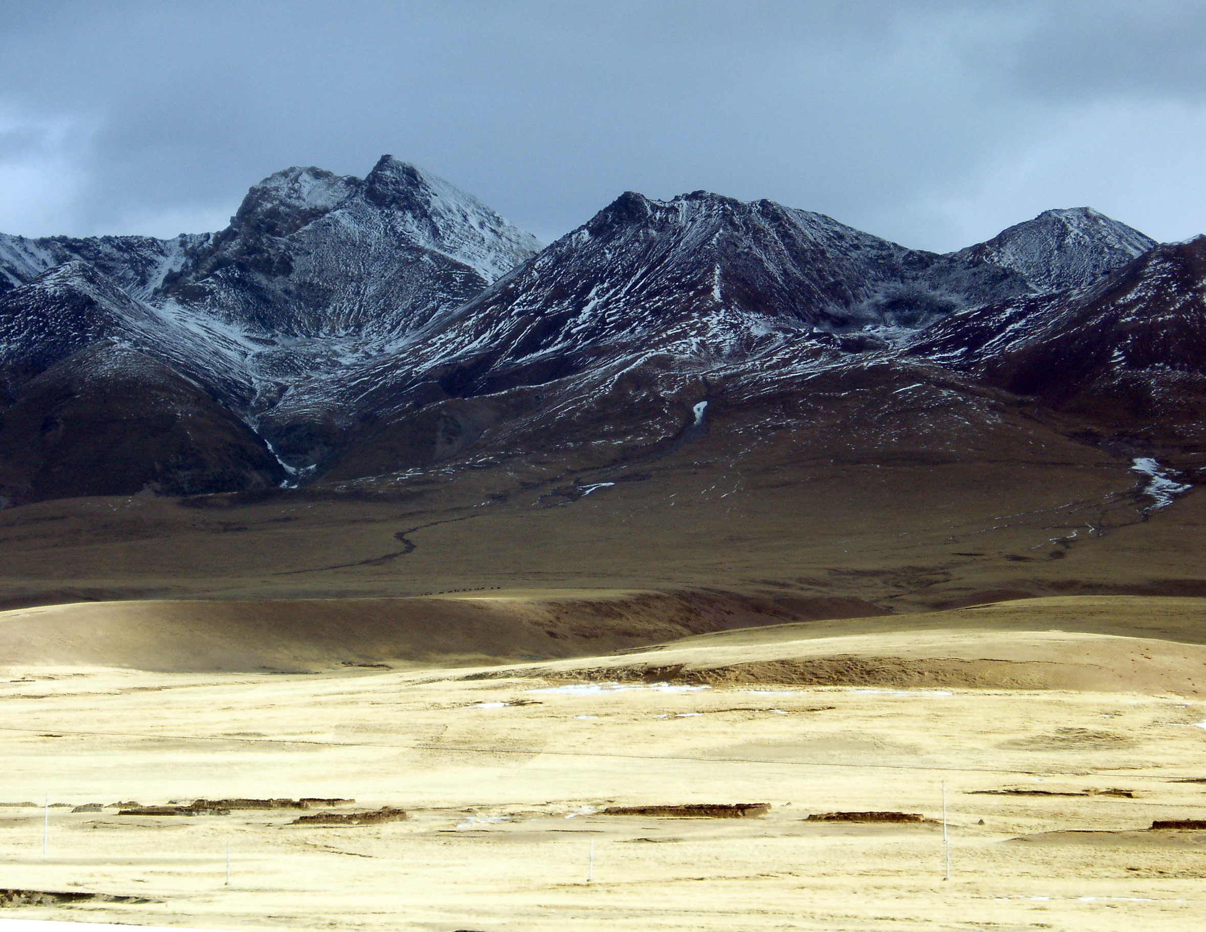 Snow mountains in Tibet